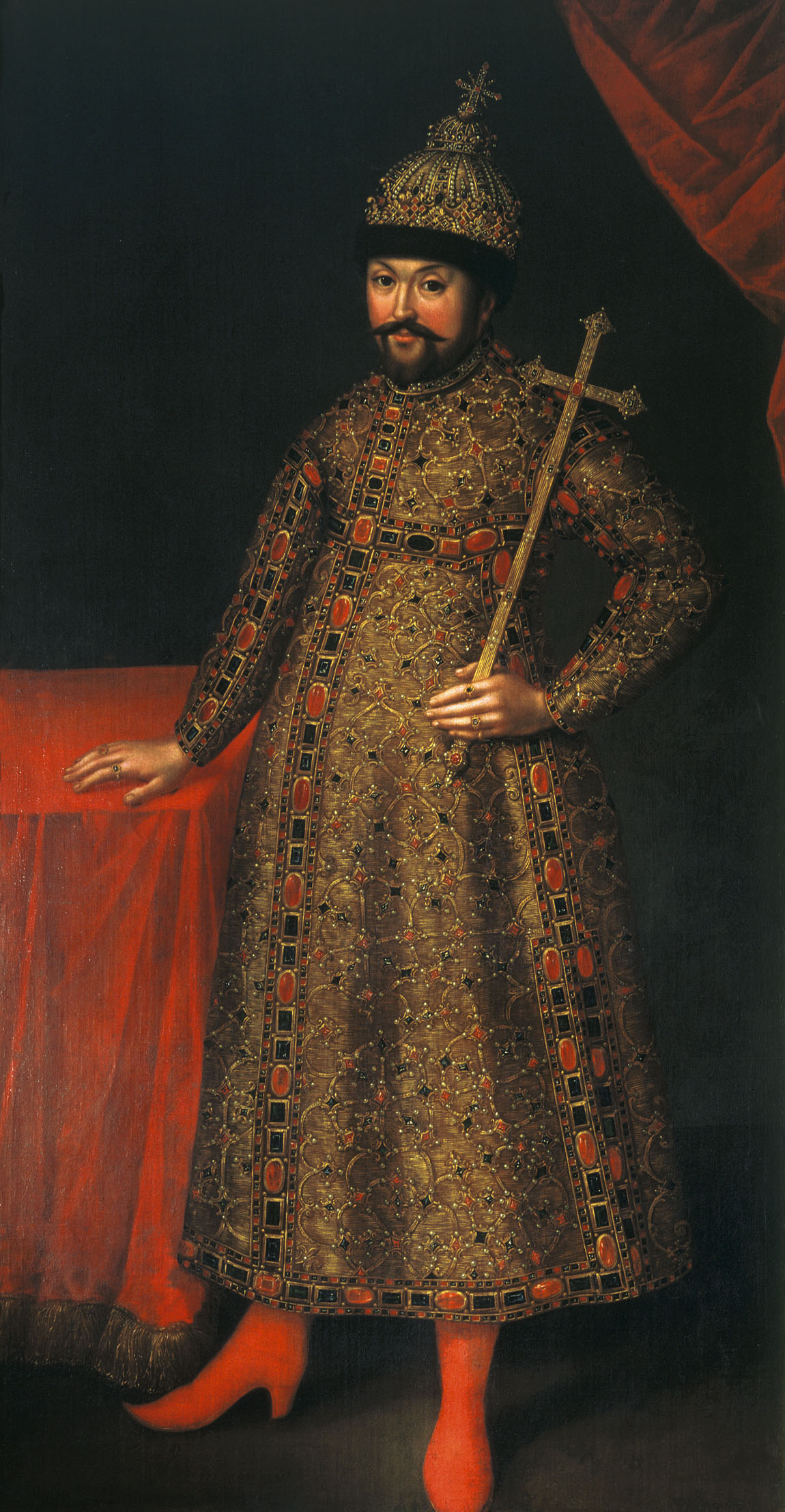 Michael I of Russia, the first tsar of the Romanov-Dynasty (1613 - 1645)